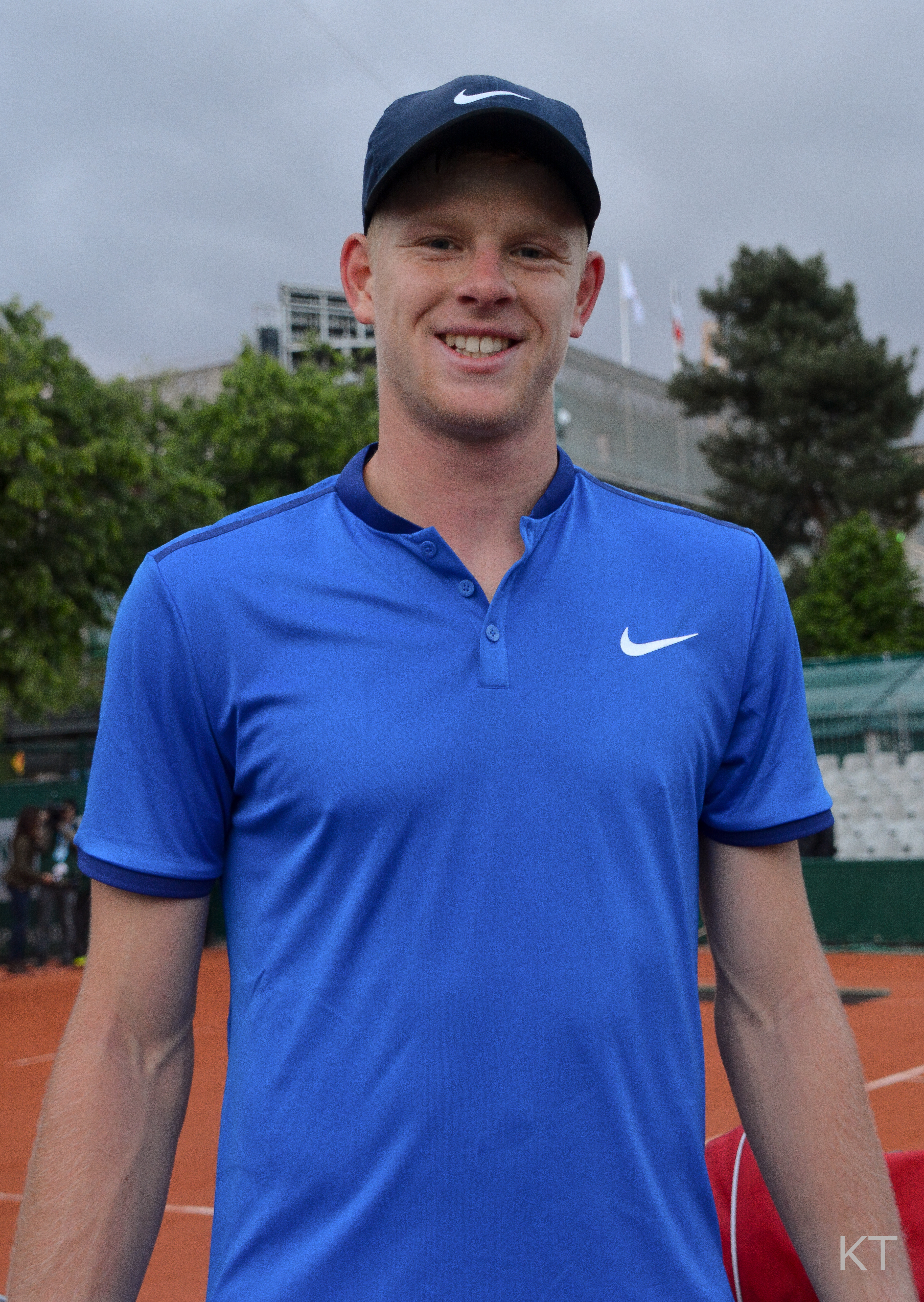 After winning his 1st round match. Roland Garros 2016